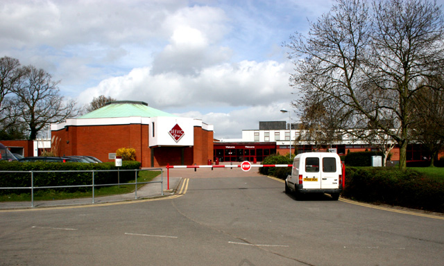 Seevic College Seevic College is next to Castle Point Council Offices on the A13.